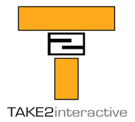 Logo of Take-Two Interactive from 1999 to 2005.